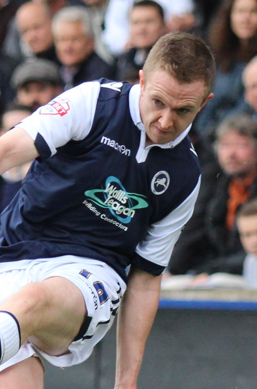 Shane Ferguson of Millwall crosses the ball during the game against Swindon Town.